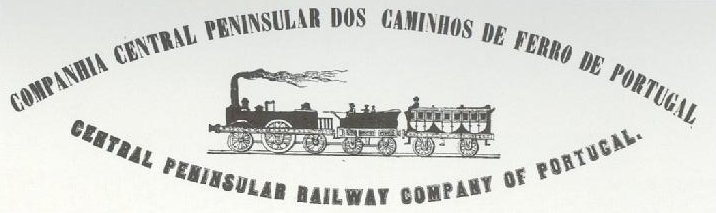 Logotype of the Companhia Central Peninsular dos Caminhos de Ferro de Portugal (Central Peninsular Railway Company of Portugal), that functioned between 1852 and 1857.